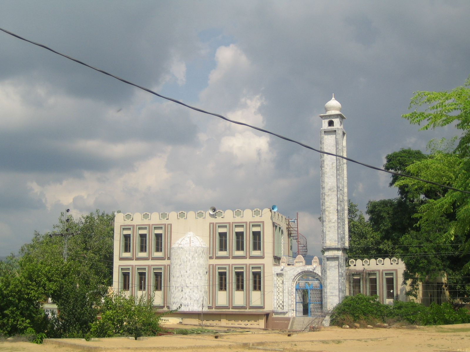 Jamia Masjid Kalri, in what Pakistan refers to as "Azad Kashmir"